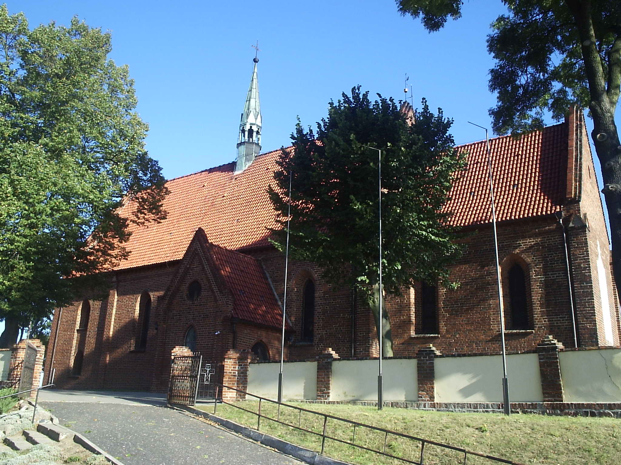 Church in Stary Gostyń, Poland pl